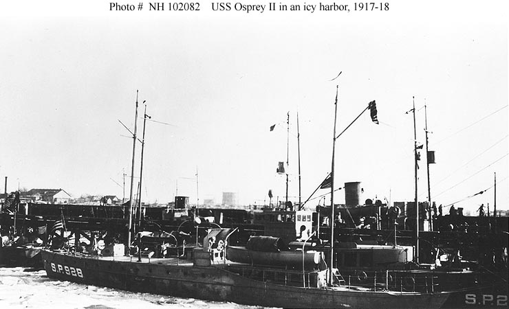 The United States Navy patrol vessel in port with other section patrol craft